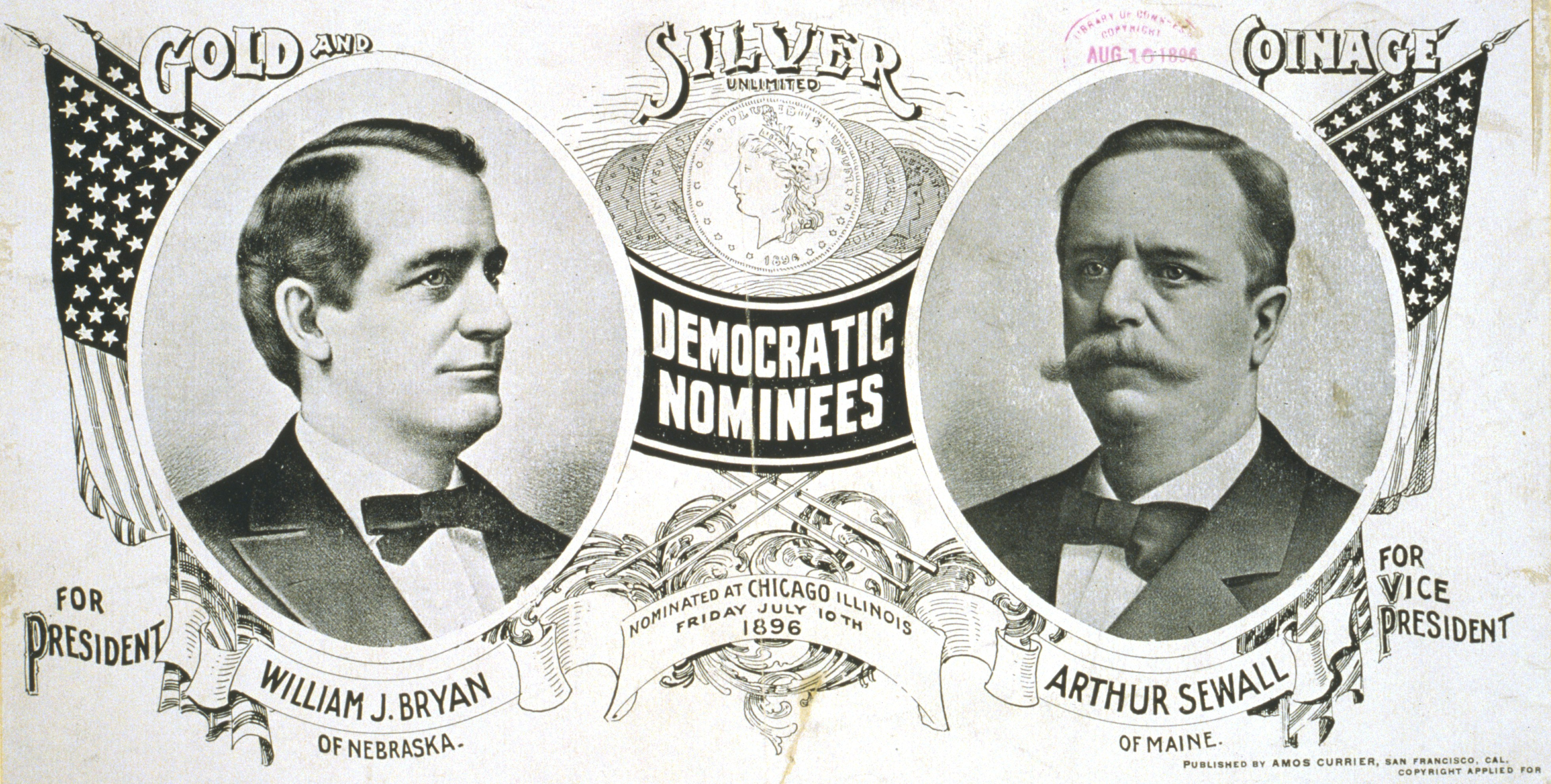 Bryan/Sewall campaign poster, 1896 US presidential election.